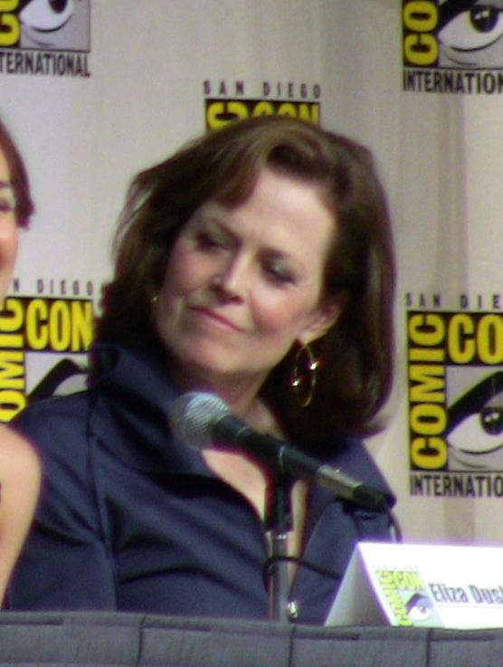 Actress Sigourney Weaver – Comic-Con 2009 - Convention Center Main Hall - San Diego, Calif. - July 22, 2009.